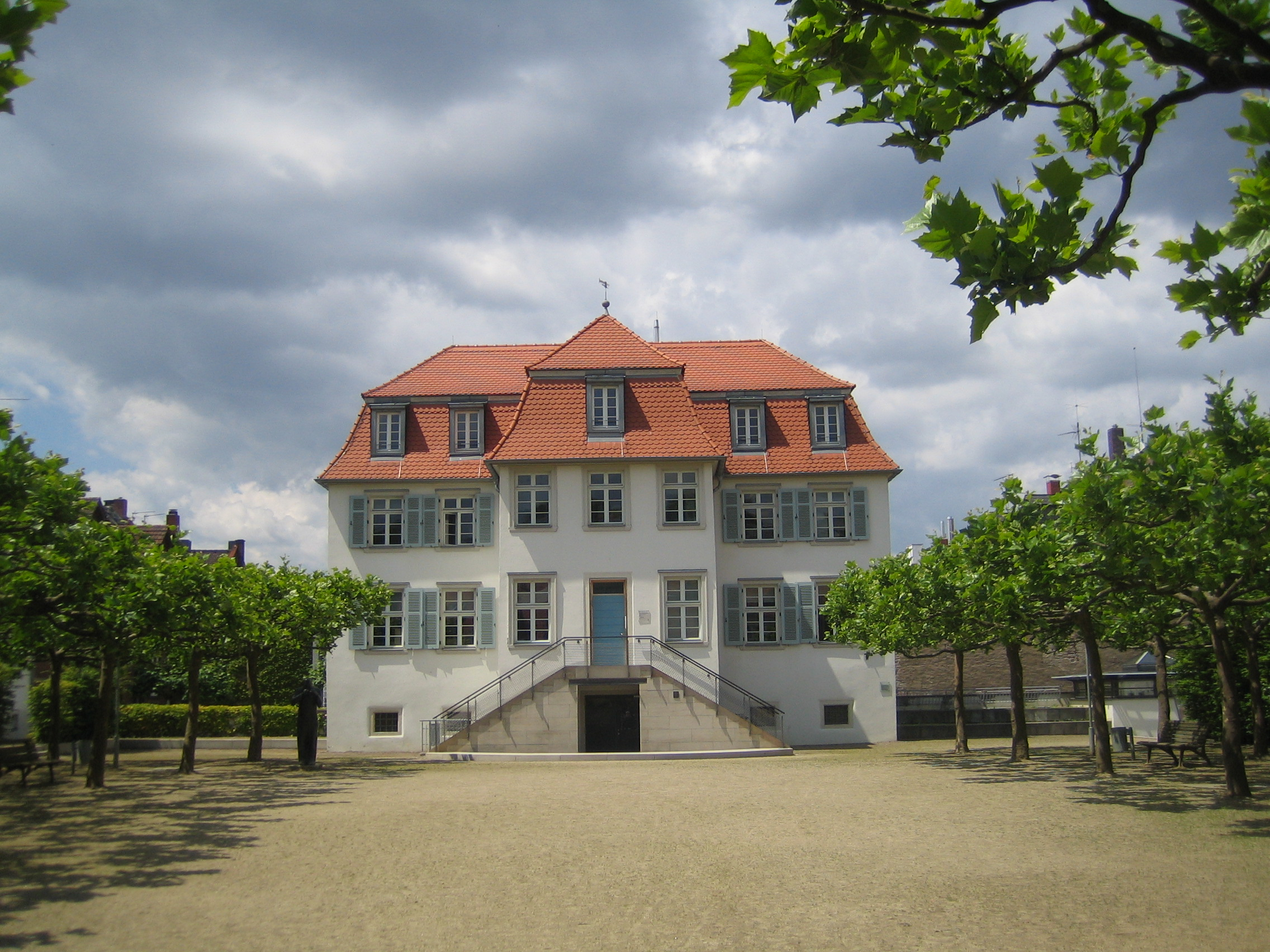 Picture of the Kavaliershaus (Part of Jagdhof) in Darmstadt Bessungen